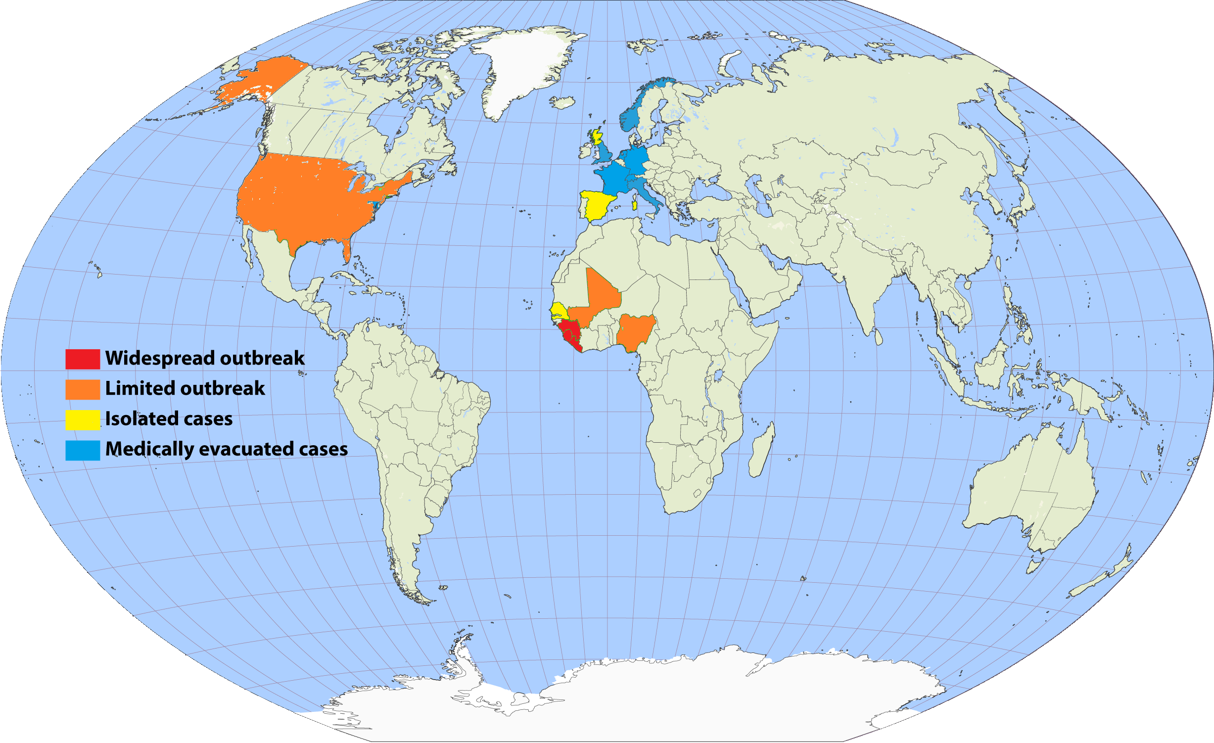 Continuation of the moribund map located at